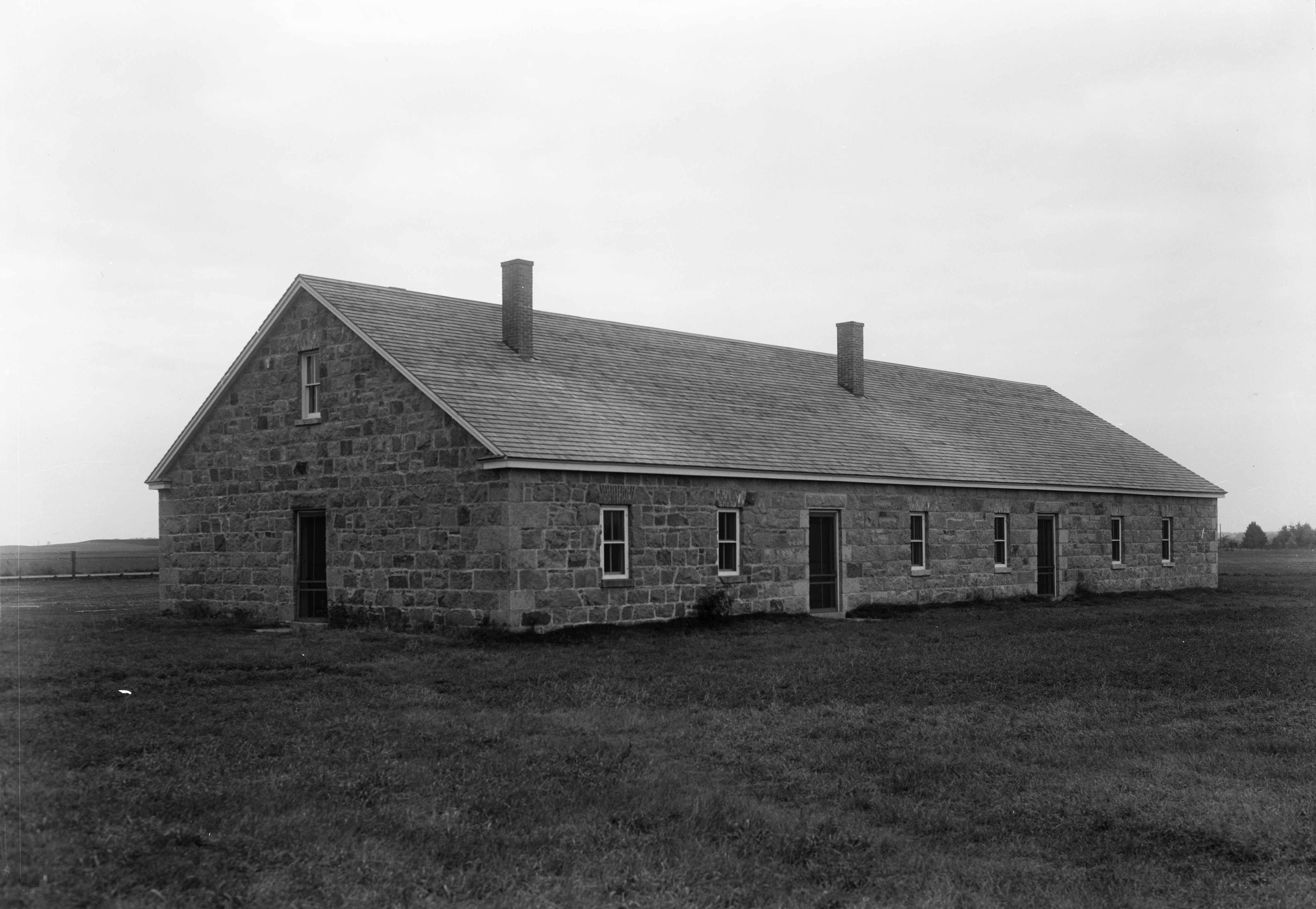 Fort Ridgeley, Commissary Building, Fort Ridgeley, Nicollet County, MN. View from southeast